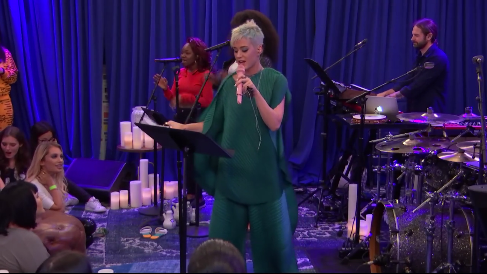 Edited and story produced by Nicole Alexander for the Witness World Wide Launch